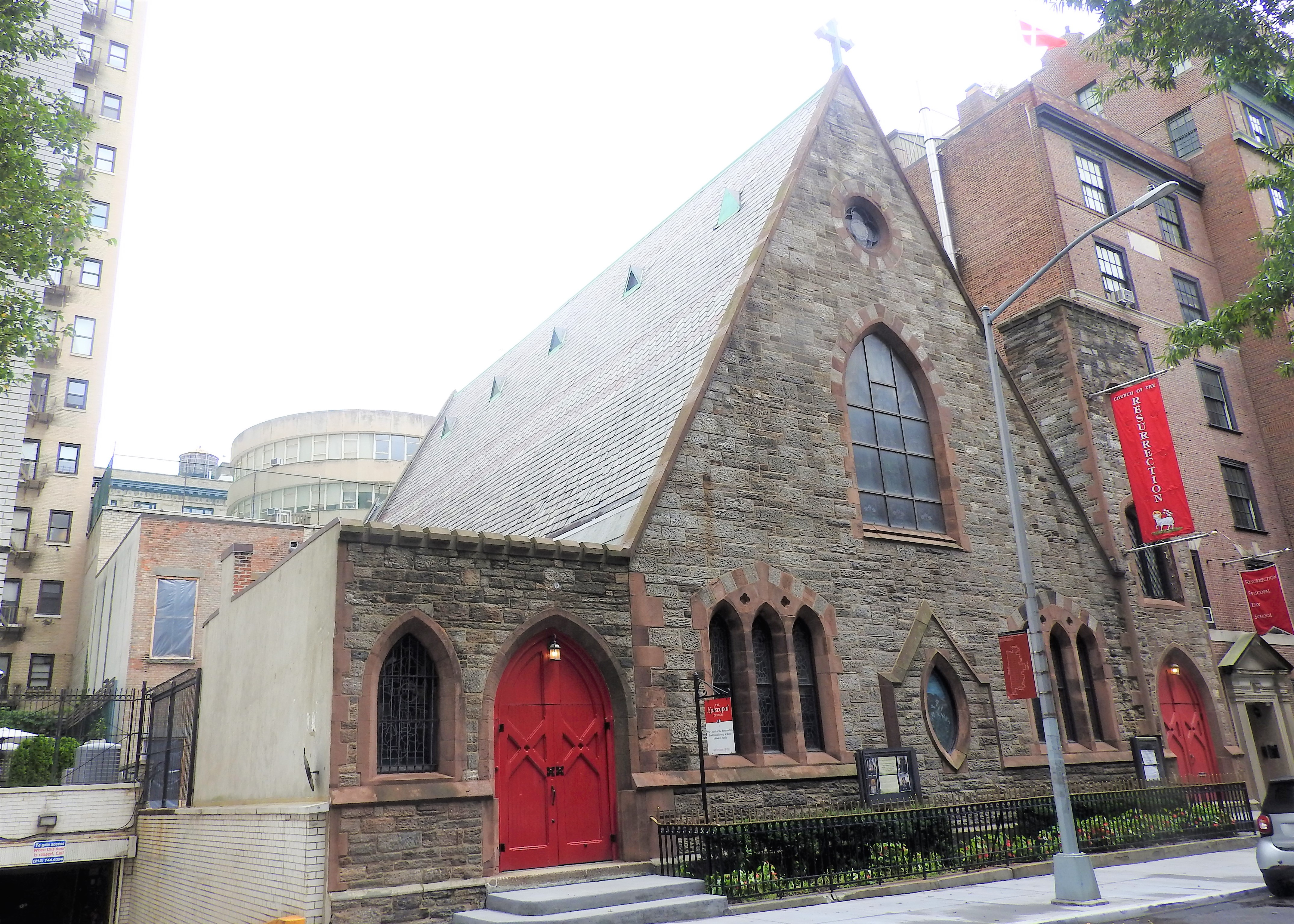 Looking northeast across East 71st Street on a cloudy day